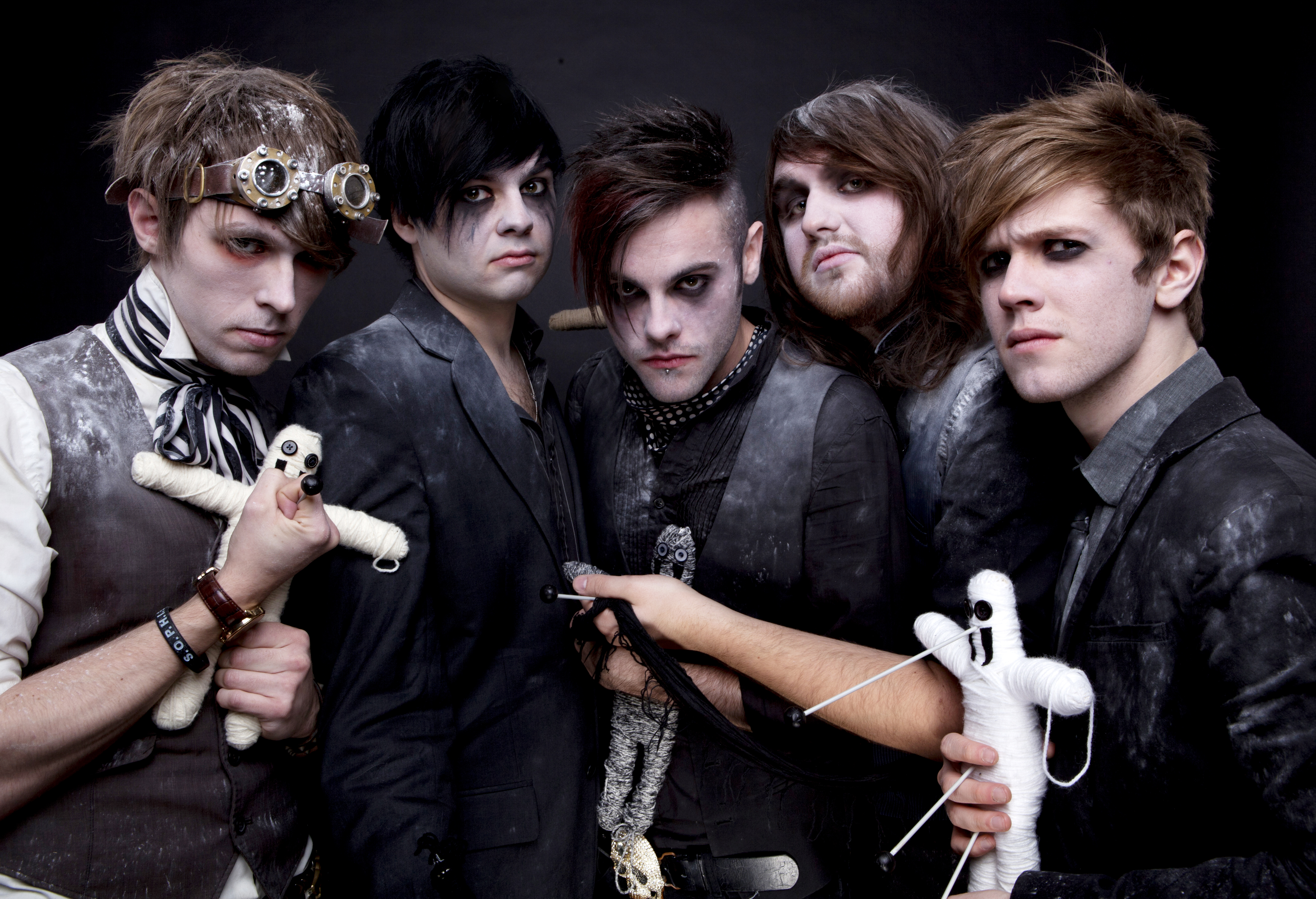 A group-shot photograph of the band "Fearless Vampire Killers" taken on the 4th December 2011 at 7Sevenproductions studio in Fulham, London featuring the band members holding self-made voodoo dolls. Donated to Wikimedia Commons by the photographer, Jennifer Dreier, under a Creative Commons Attribution-Share Alike 3.0 license.